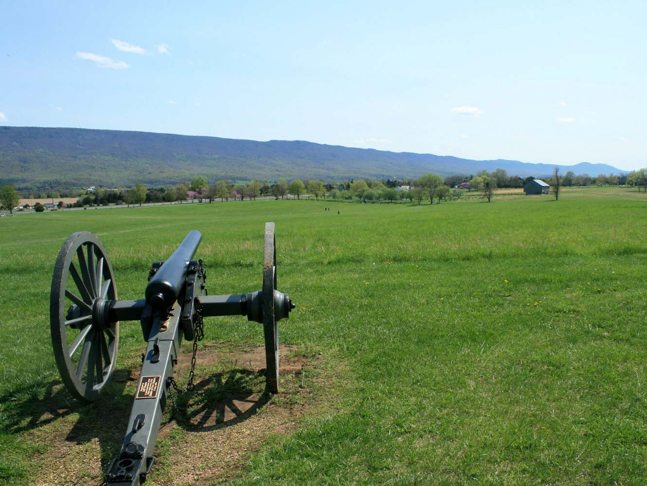 New Market, federal 3 inch gun of Carlin's battery, an d Bushong's farm